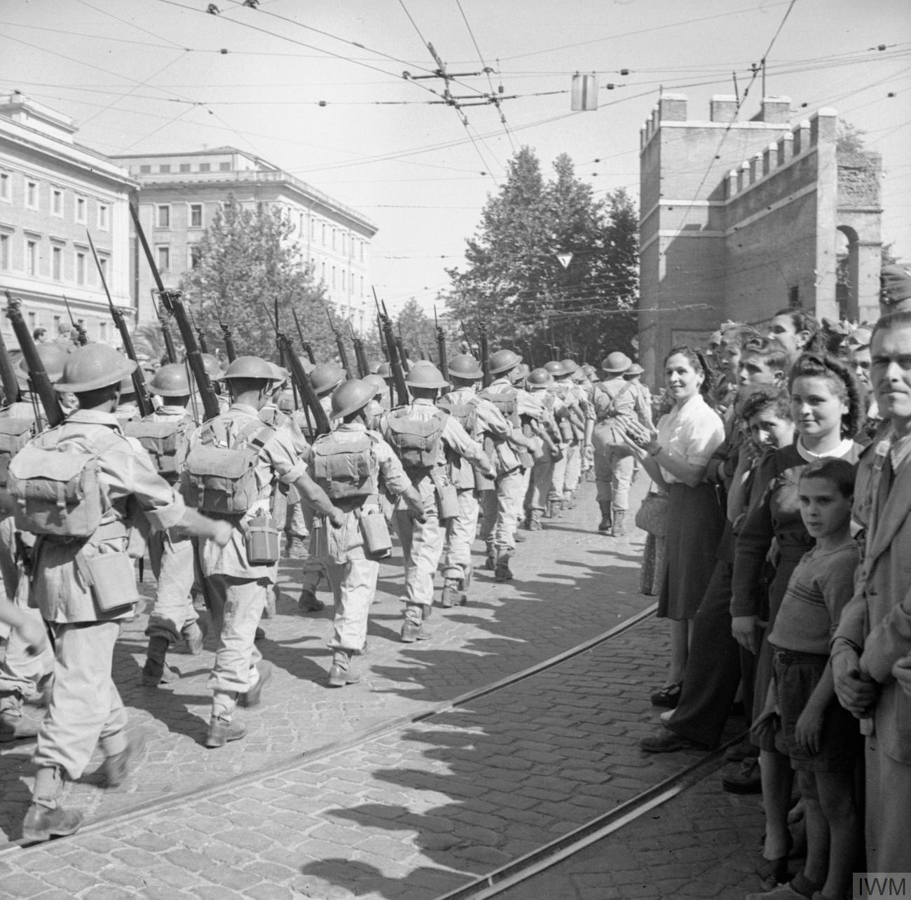 The British Army in Italy 1944 Men of 1st Duke of Wellington's Regiment march into Rome, 8 June 1944.